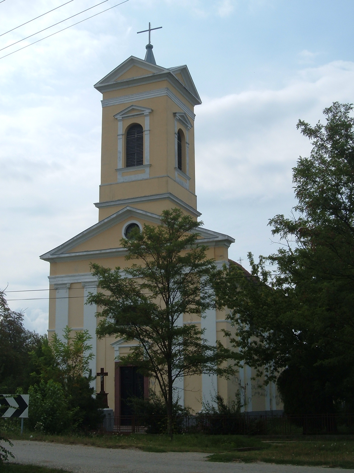 Boka, Catholic Church